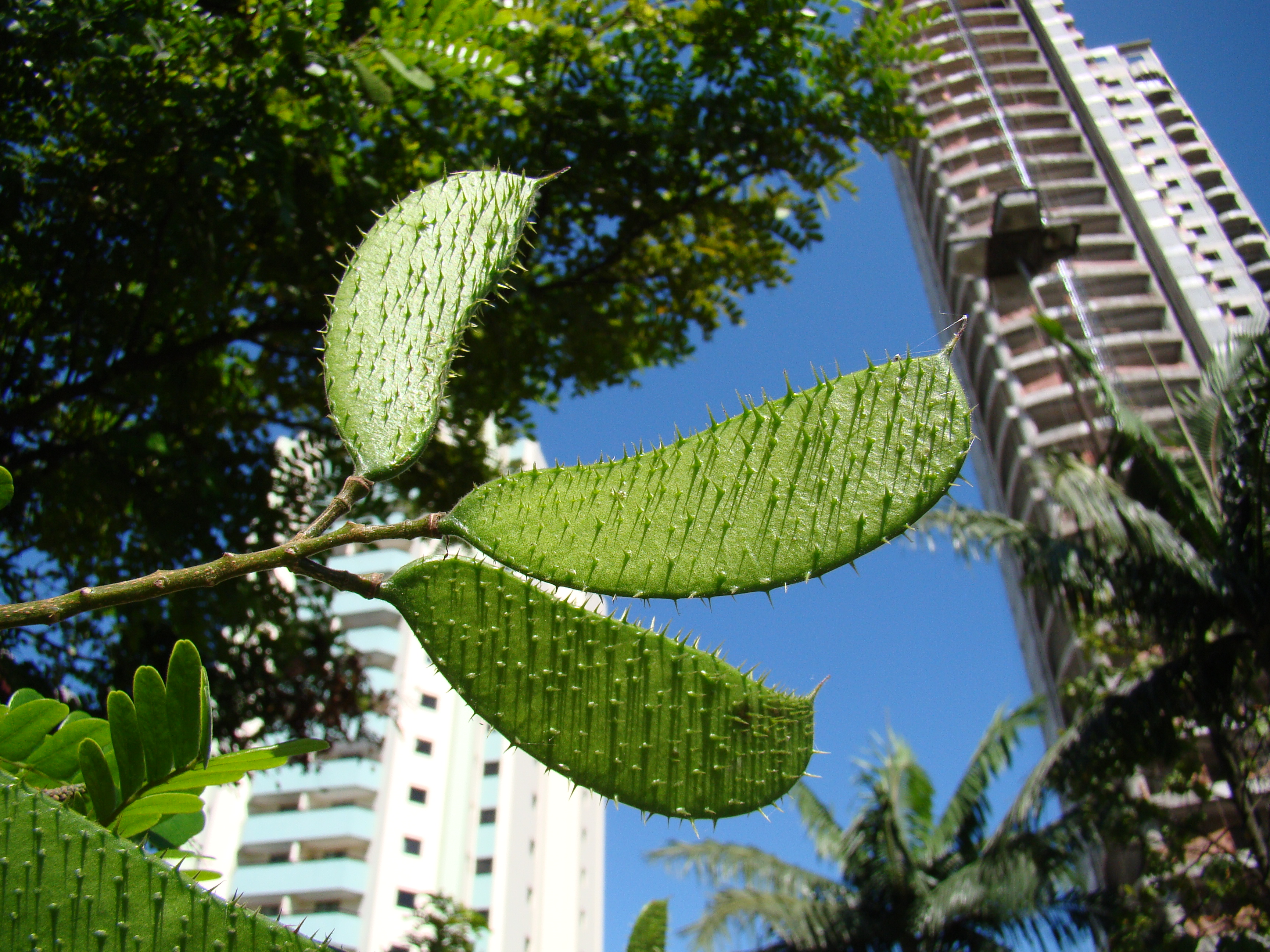 Brazilwood rare tree legumens, Sao Paulo